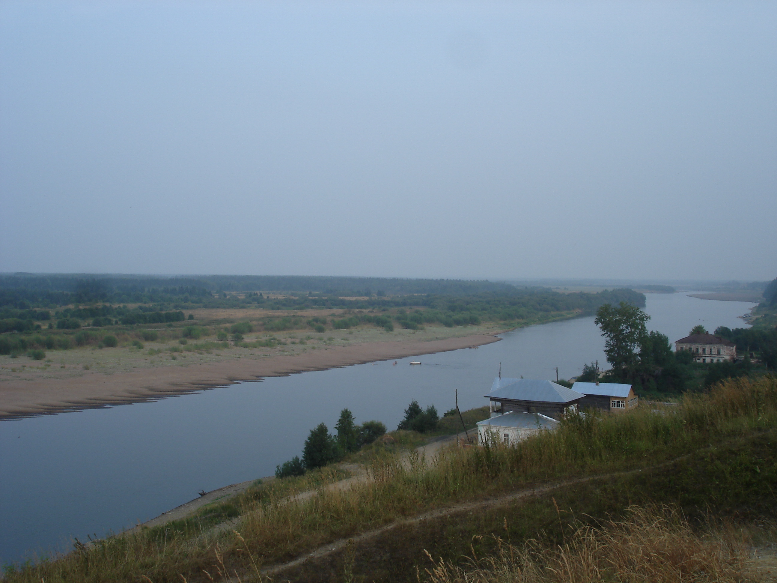 The Kolva at Cherdyn